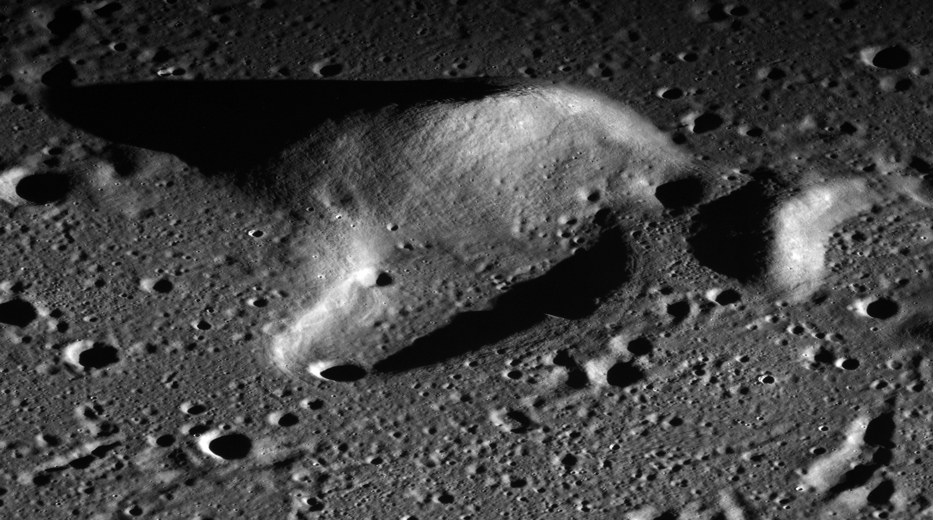 Oblique view of Fedorov crater, facing north, on the moon. Taken by Apollo 17 panoramic camera.